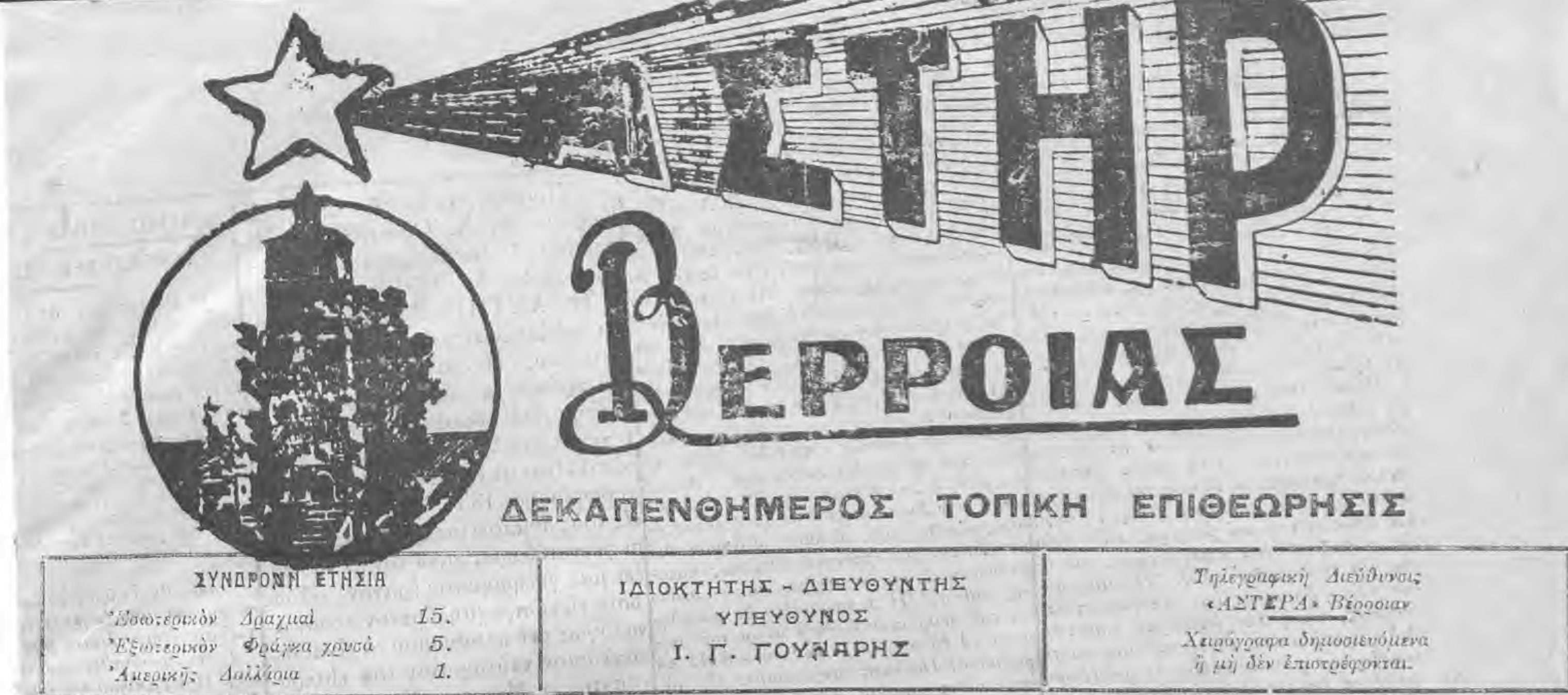 Astir Verroias newspaper